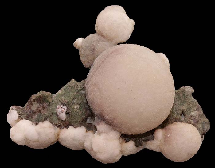 Thomsonite Locality: Malad, Ward 38, Mumbai (Bombay), Mumbai District (Bombay District), Maharashtra, India (Locality at ) At first, nobody could believe these were thomsonites when they appeared at the Tucson show earlier this year – they were being sold as something else until “the” expert on zeolites identified them for what they were right there at the show – the biggest and richest thomsonites the world has ever seen! Then there was a mad rush to buy them, of course. Not all are so beautiful, but a few have the gorgeous aesthetics of this one, with a huge, perfect ball measuring 4 cm centred on the sparing matrix, surrounded by smaller balls. 9 x 6.5 x 2.8 cm